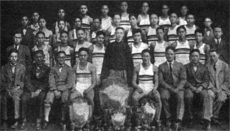 Chinese players at 1926 Shanghai International Games 中文（中国大陆）: 1926年上海万国运动会中国选手合影